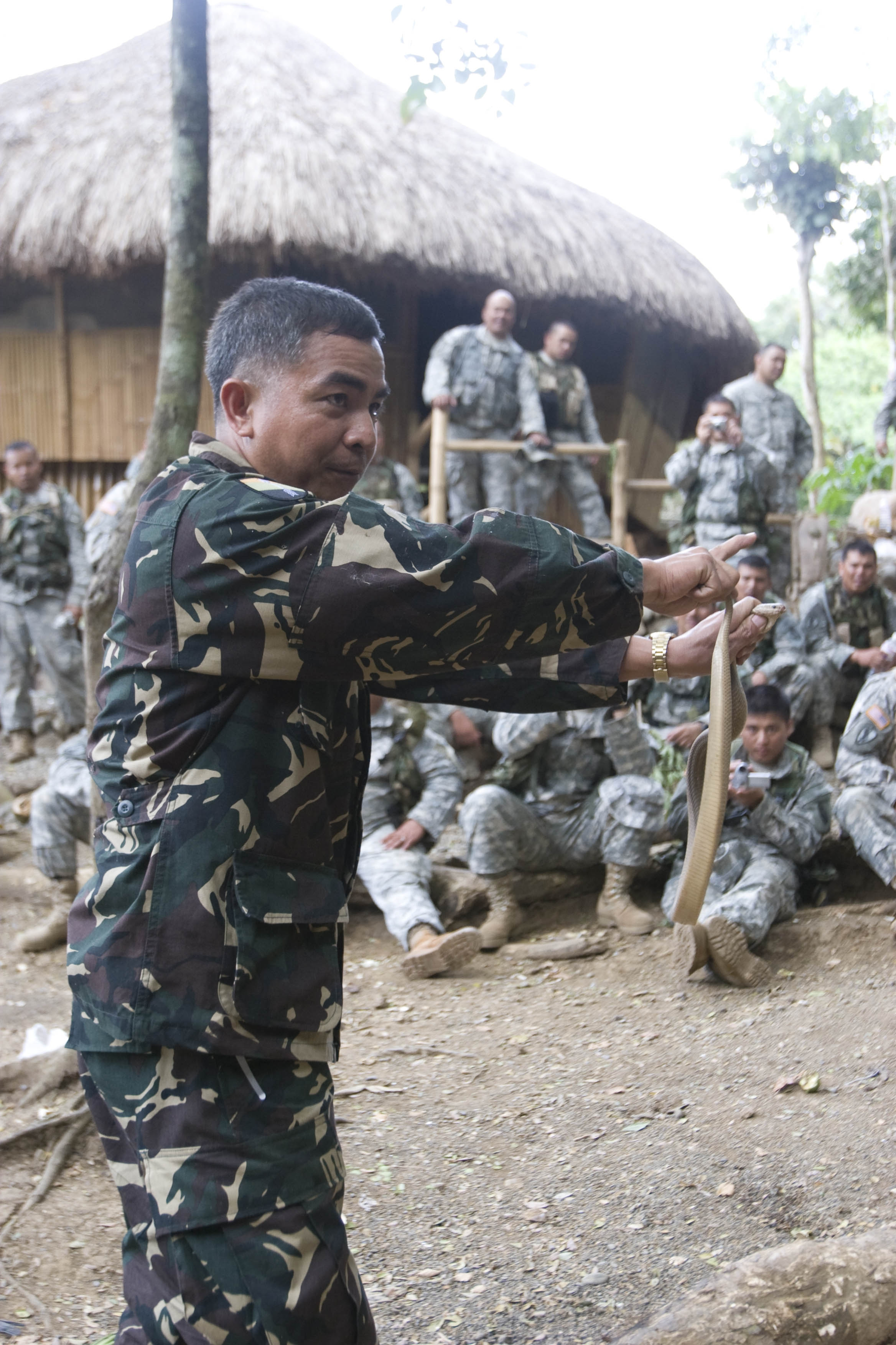 Philippine Army Staff Sgt. Manolo Martin demonstrates the proper way to hold a king cobra during the survival course during Balikatan Exercise.